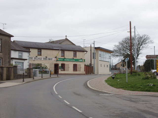 Murntown (Murrintown) Post office. It is combined with "The Village Takeaway".